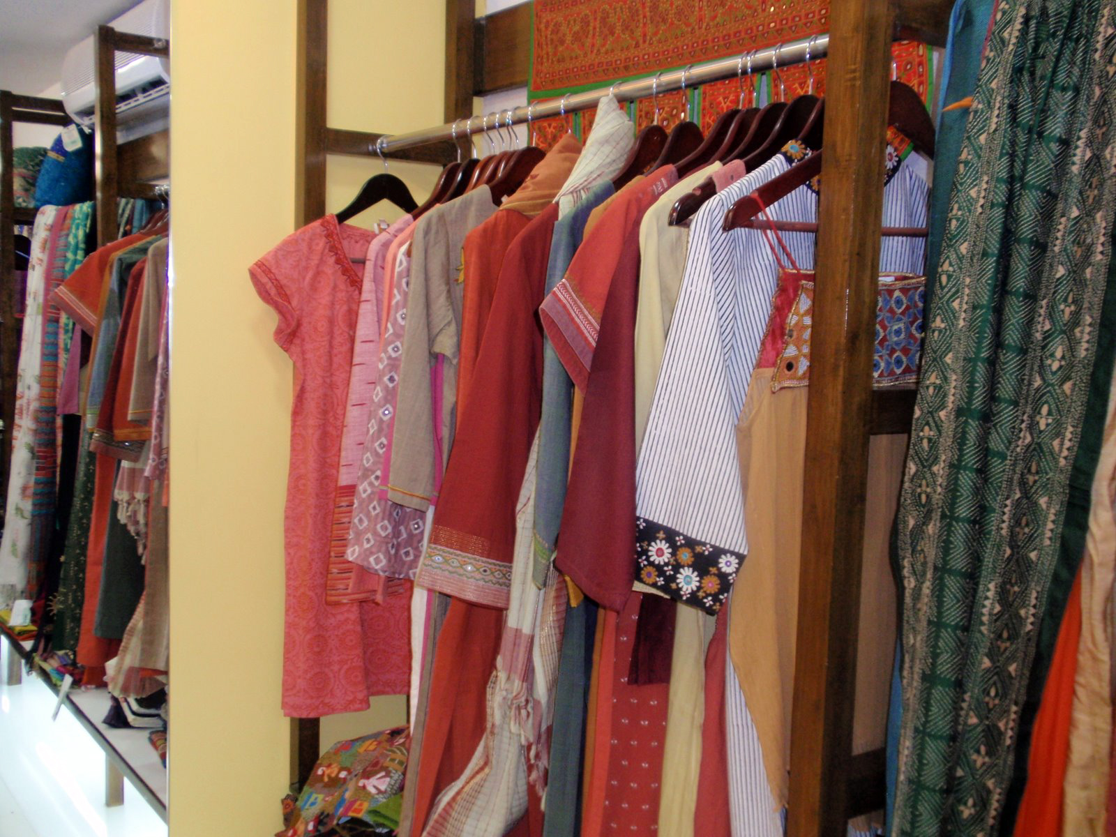 Products at the SEWA (Self Employed Women's Association) store where U.S. Secretary of State toured while visiting Mumbai, India July 18, 2009. [State Department photo]